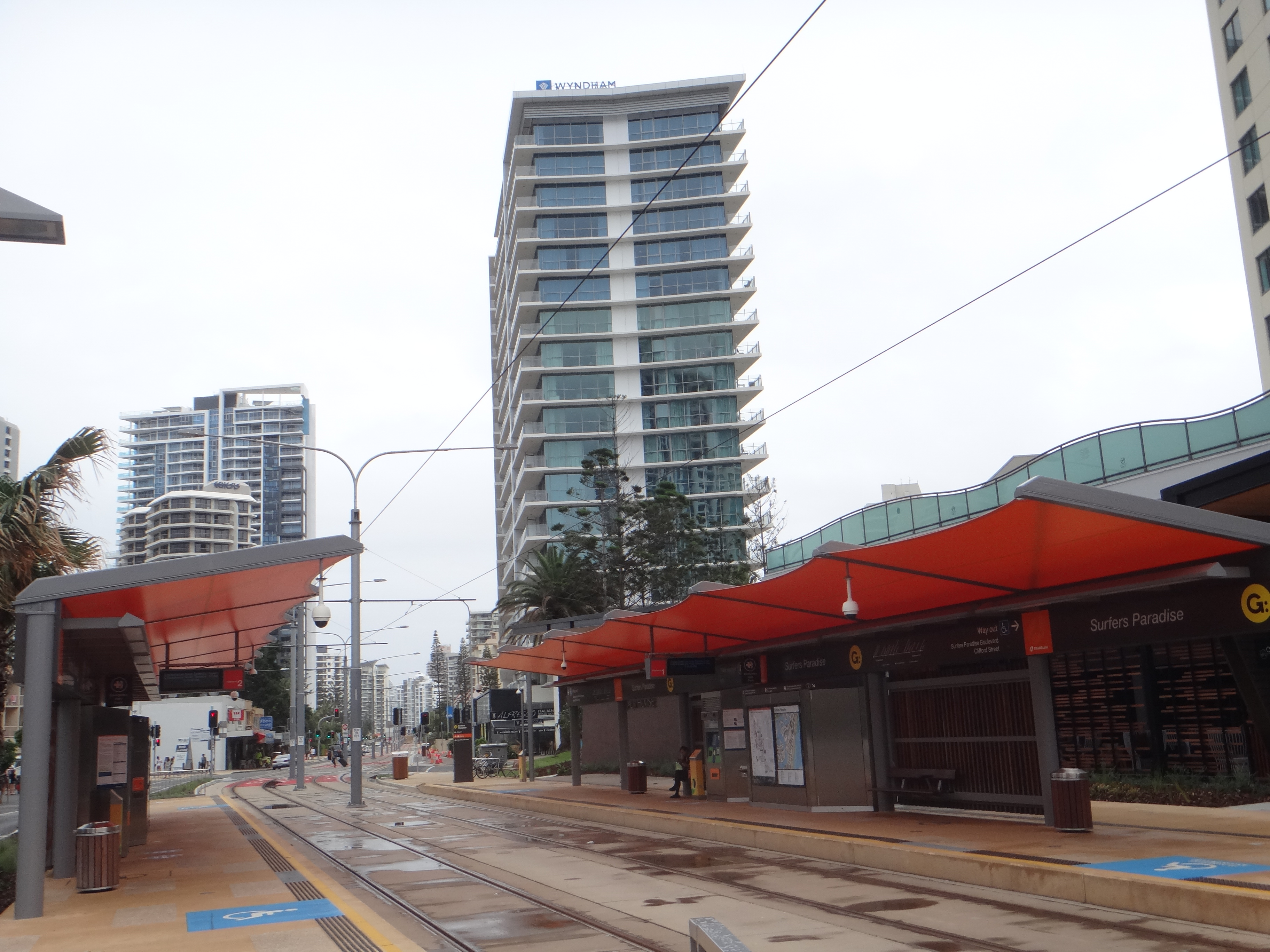 Surfers Paradise light rail stop